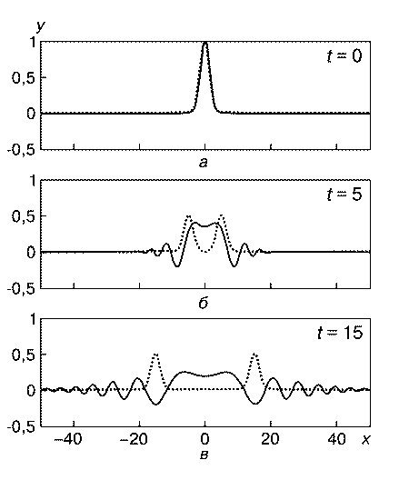 Comparison of disturbances ib string and bending deformed elastic bar